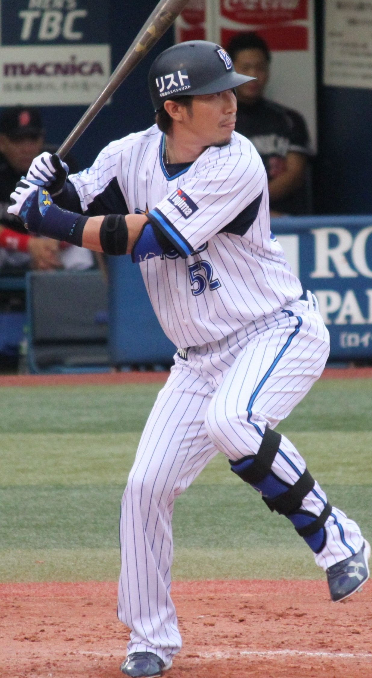 Hitoshi Tamura, outfielder of the Yokohama DeNA BayStars, at Yokohama Stadium.